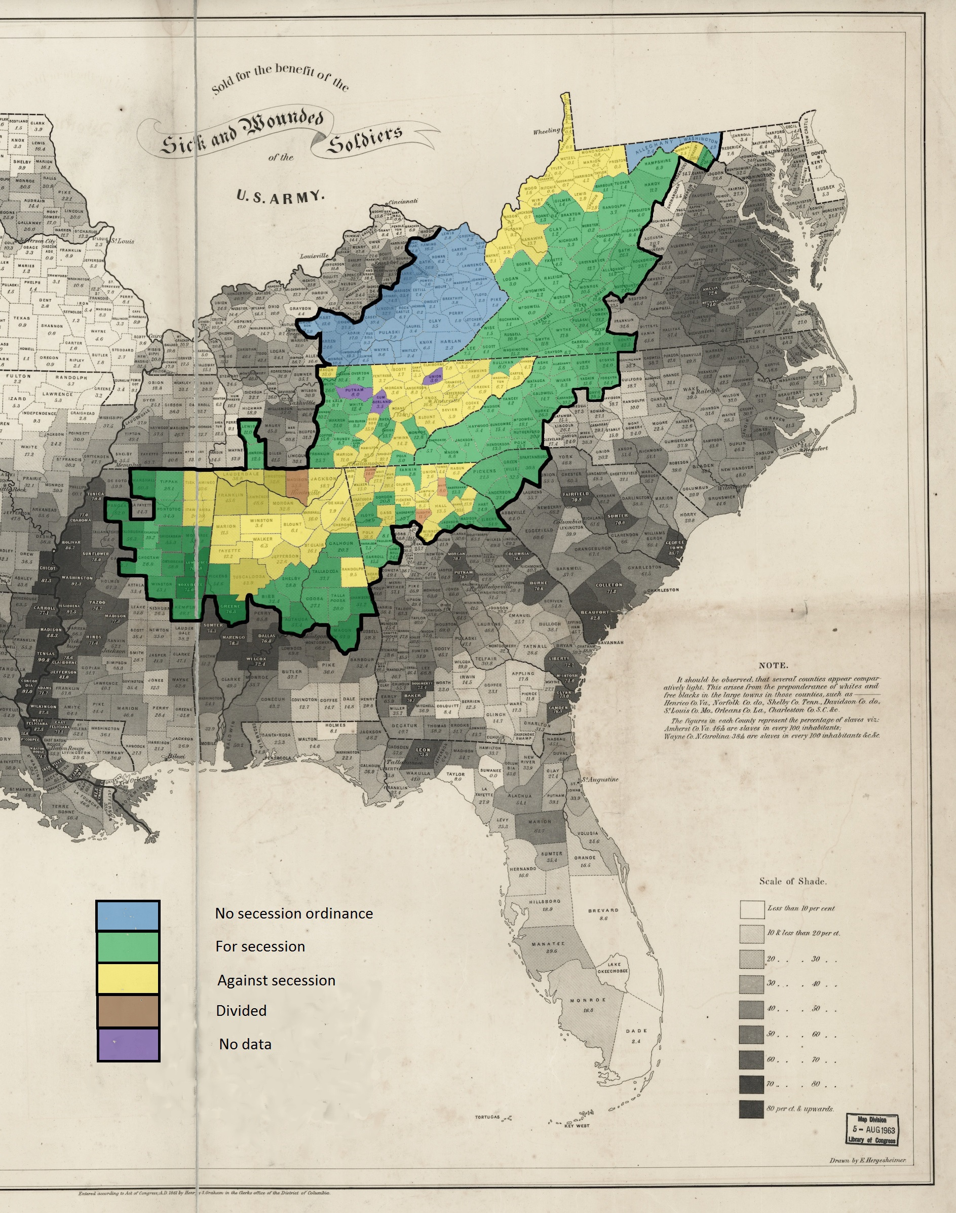 This is a map showing the voting in the various county votes of the southern states with boundaries within Appalachia on their states various ordinances of secession from the United States during the secession crisis of 1860-1861. The heavy black outline within the map shows the boundaries of the counties that are within the modern definition of Appalachia as described by the Appalachian Regional Commission. The basic map, showing slaves as a percentage of population, is public domain and was created in 1860 by the United States Coast Survey.